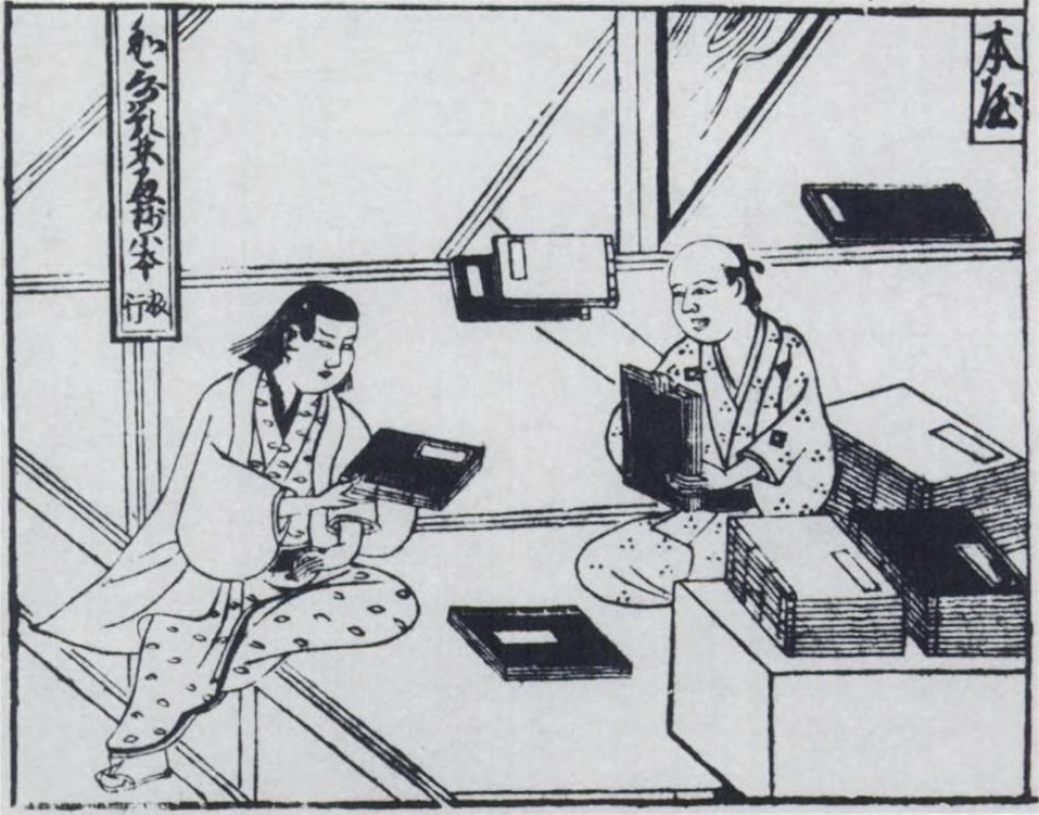 Bookseller from the Jinrin kinmo zui (人倫訓蒙図彙; An Illustrated Encyclopedia of Humanity)